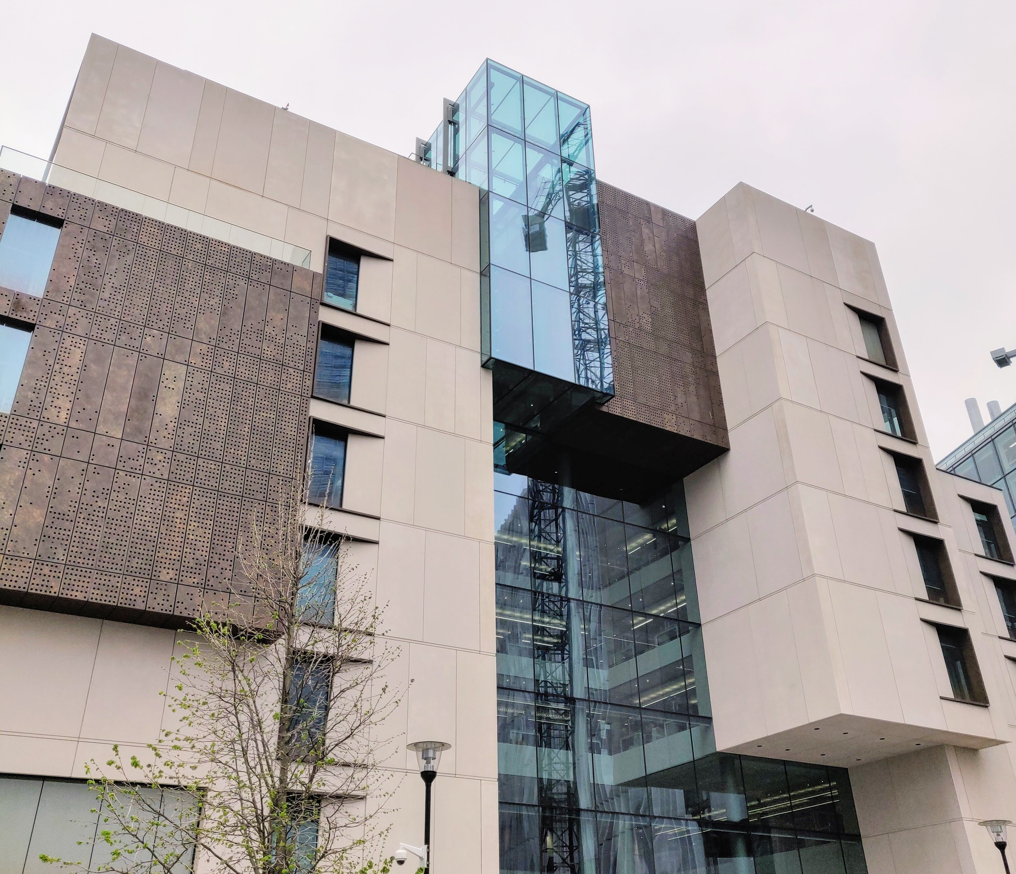 A front-on view of the new Molecular Sciences Research Hub opened in 2018 at the White City Campus for the Department of Chemistry at Imperial College London